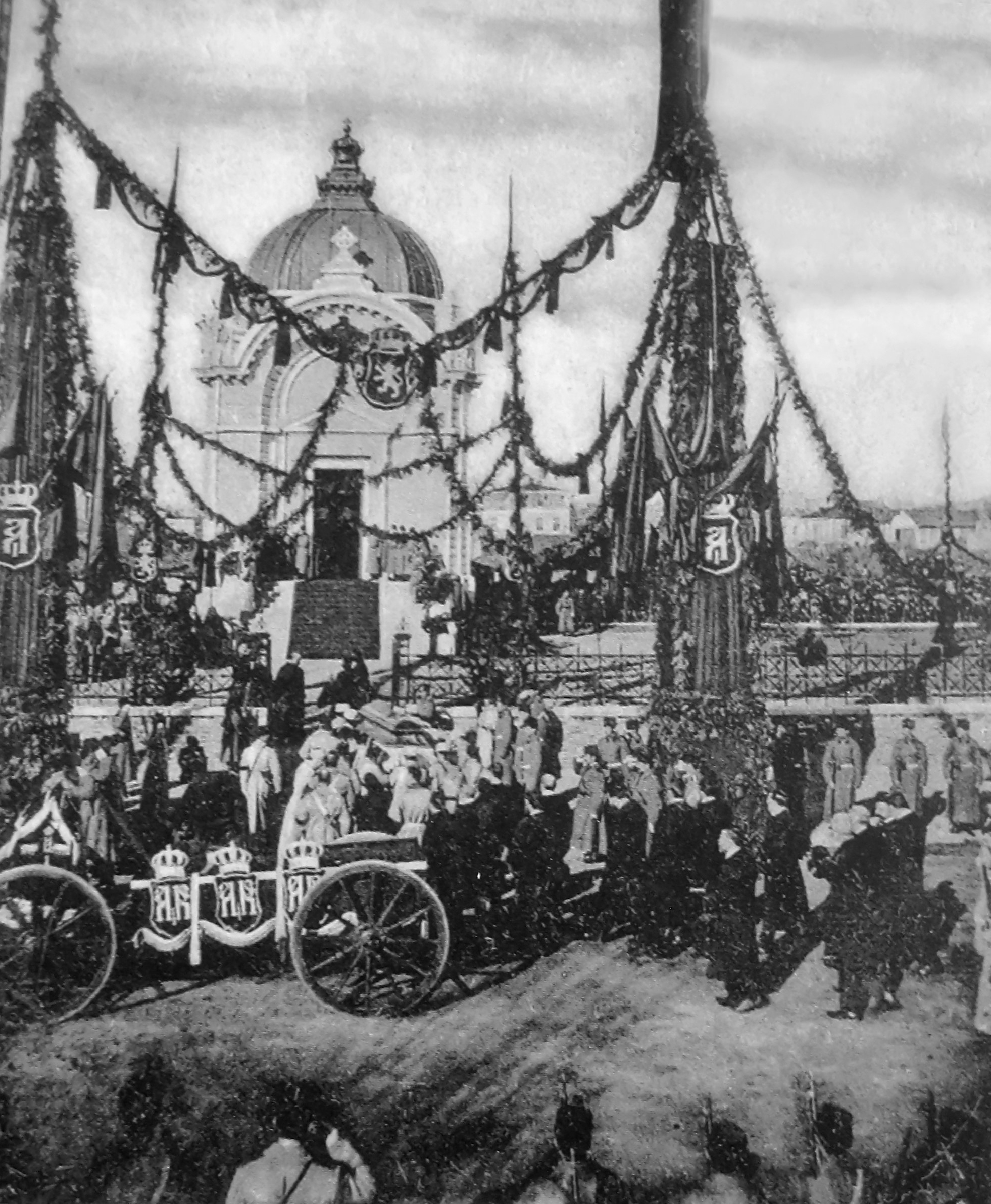 Repatriation of mortal remains of Prince Alexander Joseph of Battenberg (later Alexander I, Prince of Bulgaria) in his mausoleum in Sofia, Bulgaria